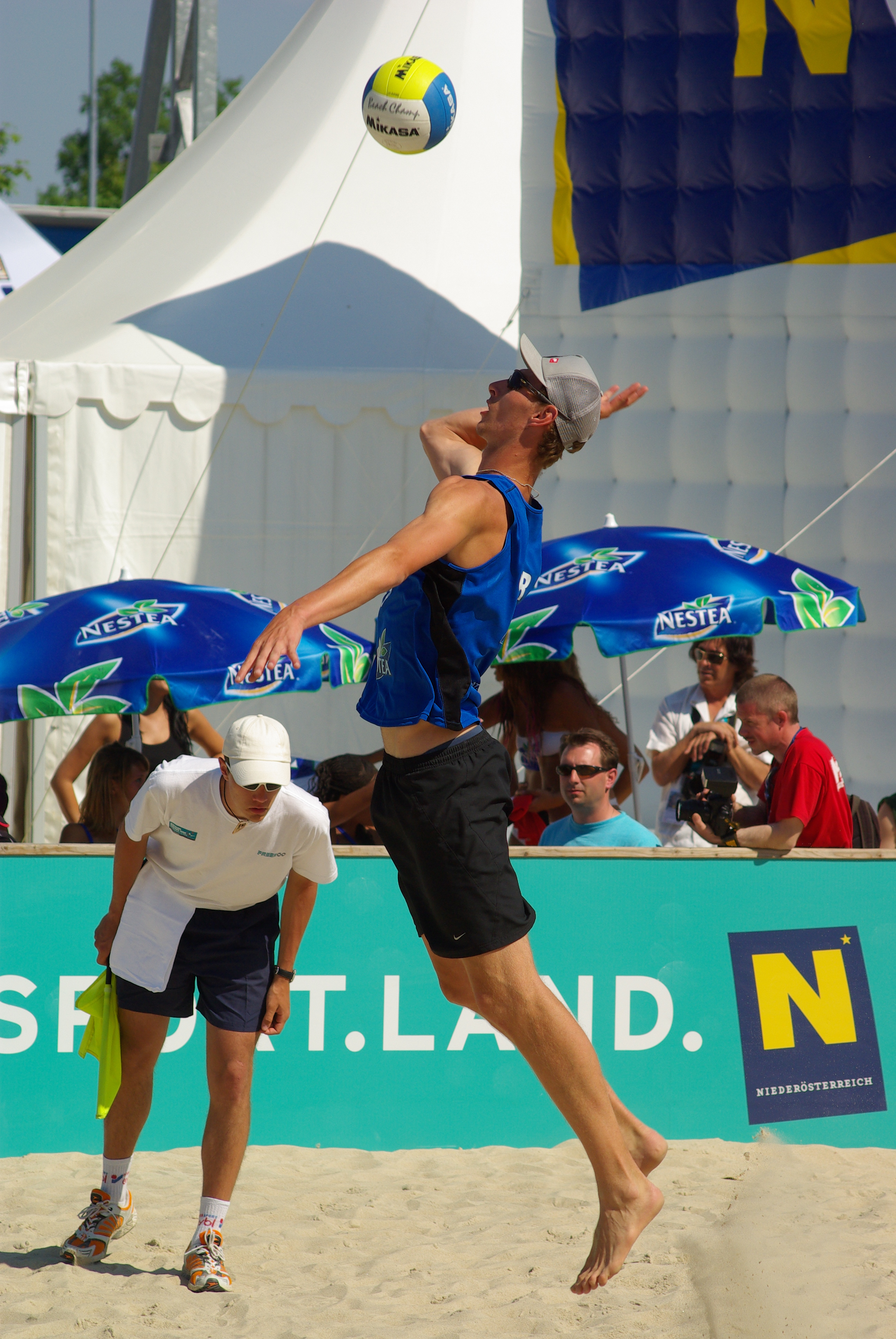 German Beach volleyball player Stefan Uhmann at the European Championship Tour 2008 Austrian Masters in St. Pölten.